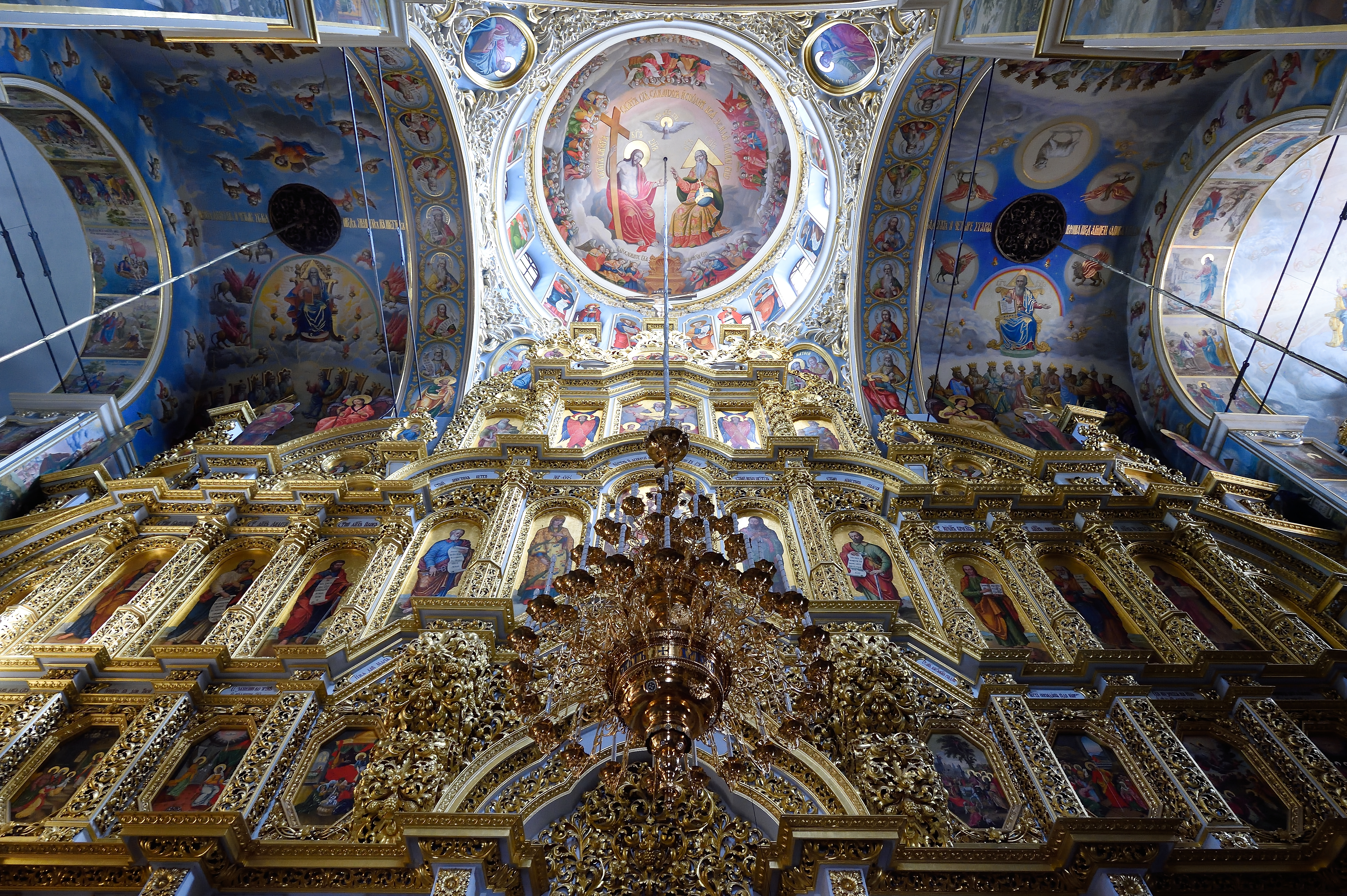 Kyiv Pechersk Lavra ceiling detail in 2019